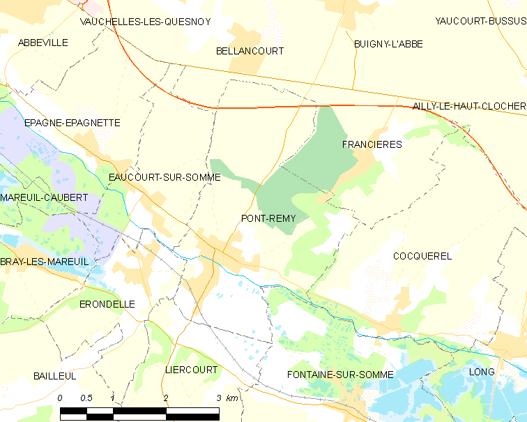 Map of French municipality Pont-Remy